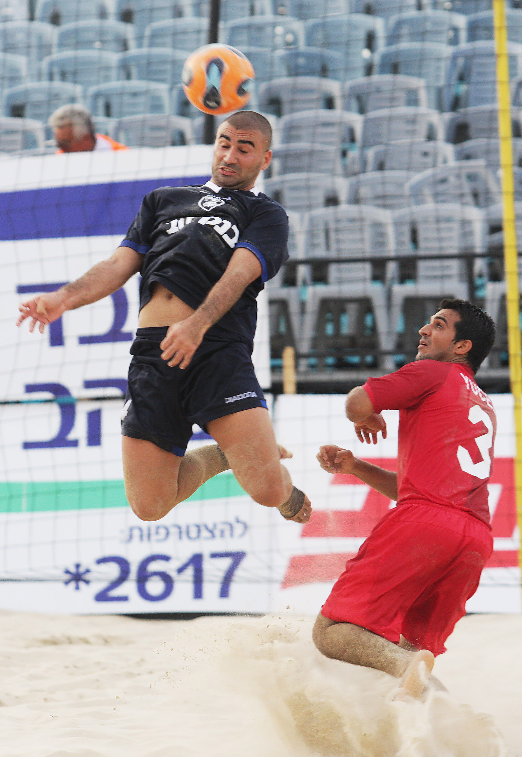 Photo from the match between the Israeli and the Turkish beach soccer teams, that was played as a part of the Challenge Cup 2008, at the Poleg beach in Netanya.